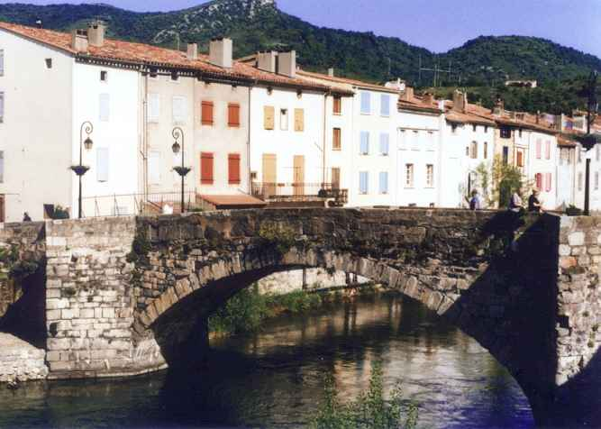 A picture of the Pont Vieux in Quillan, a small town in the upper Aude valley, France. Photographed by Matt Reef 2002